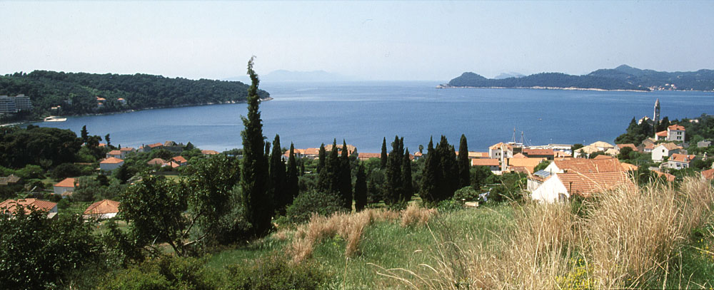 Lopud, one of the Elaphiti Islands, Croatia